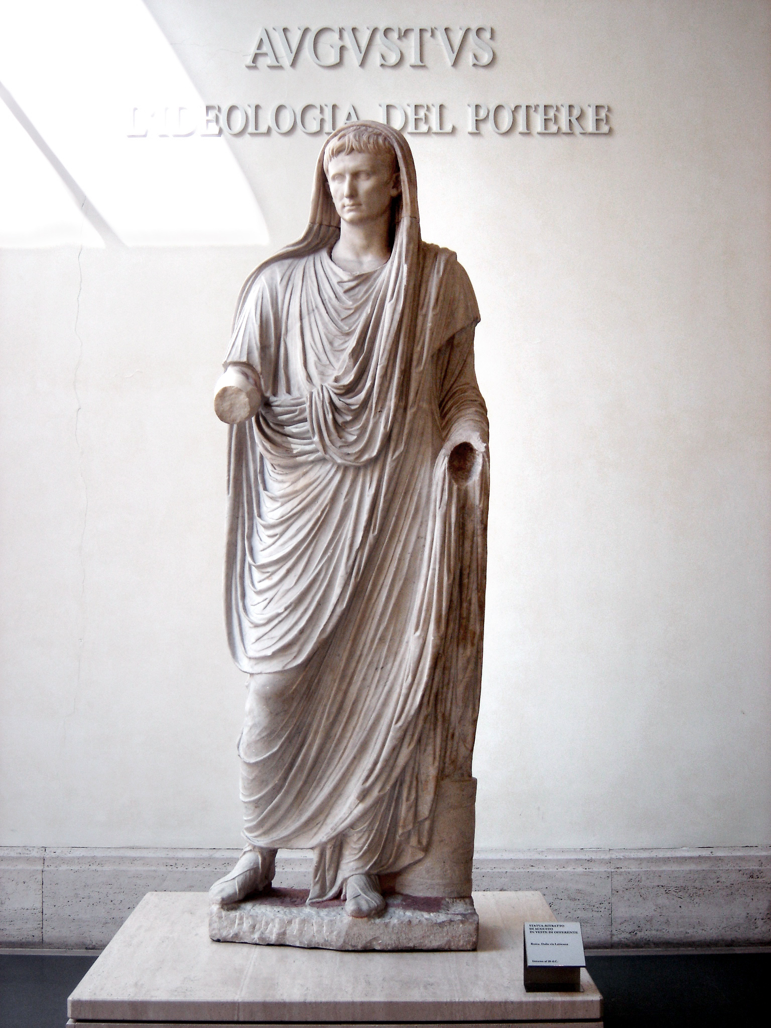 August as Pontifex Maximus: head covered, wearing the toga and calcei patricii (shoes reserved for Patricians), he extends his right arm to pour a libation; a cupsa (container for officiel documents) lies at his feet. Greek marble (arms and head) and Italic marble (body), Roman artwork of the late Augustan period, last decade of the 1st century CE. I (User:RyanFreisling) took this photo myself.